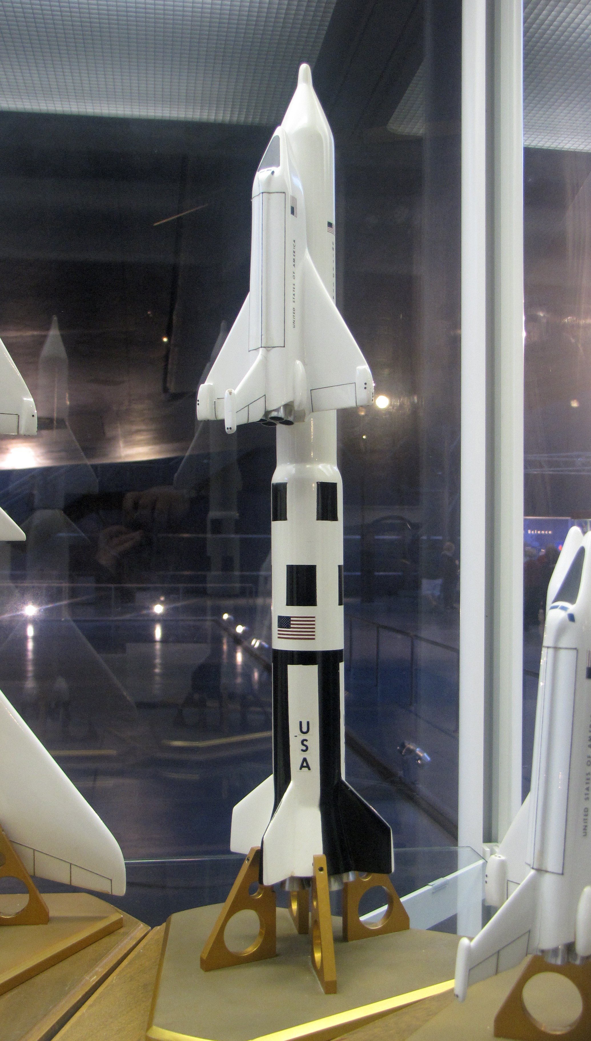 Photo of the Saturn-Shuttle concept that ultimately was developed into the Space Shuttle. Subject is a NASA model of the proposed spacecraft configuration.